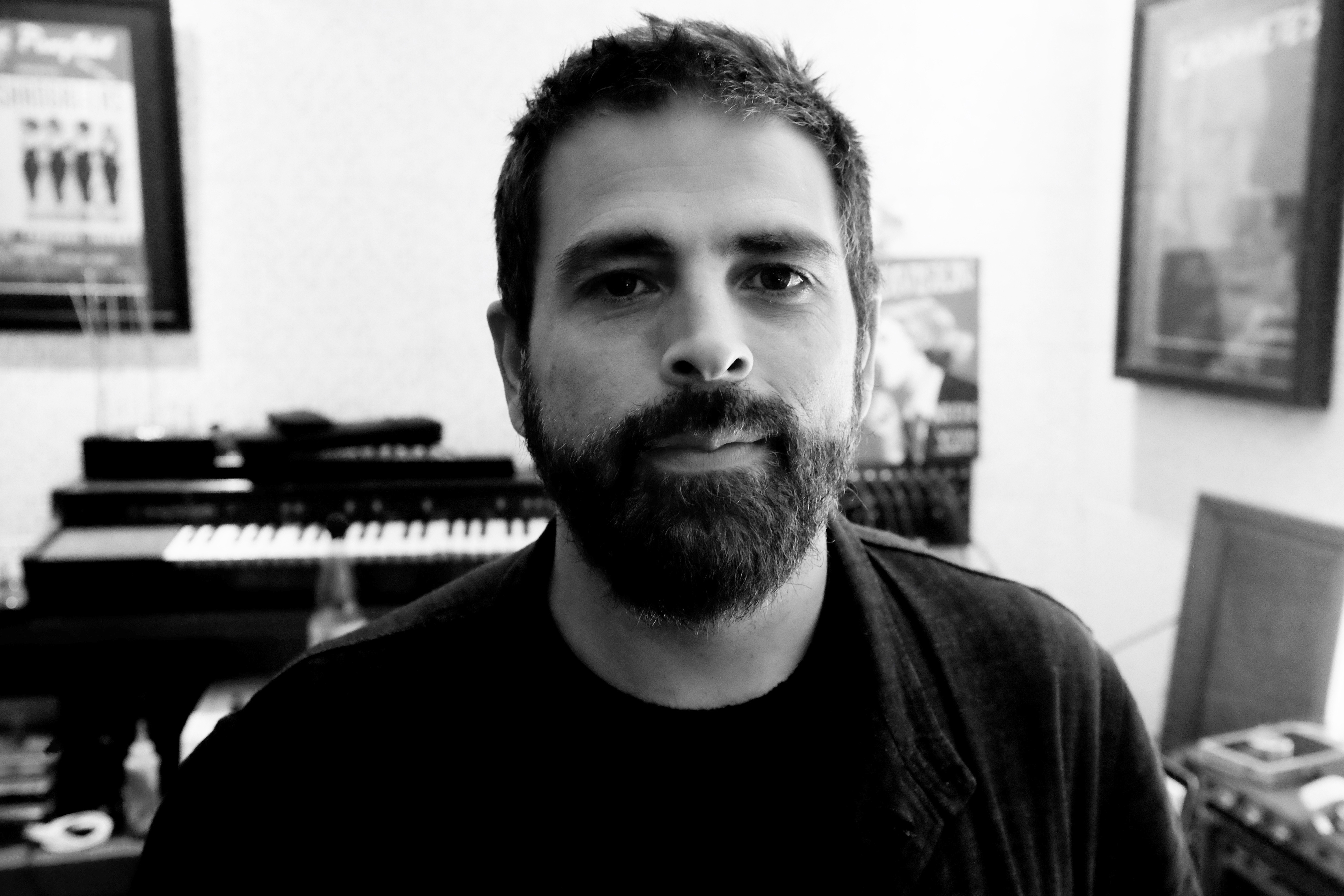 Black & White photo of Keefus Ciancia taken in 2016